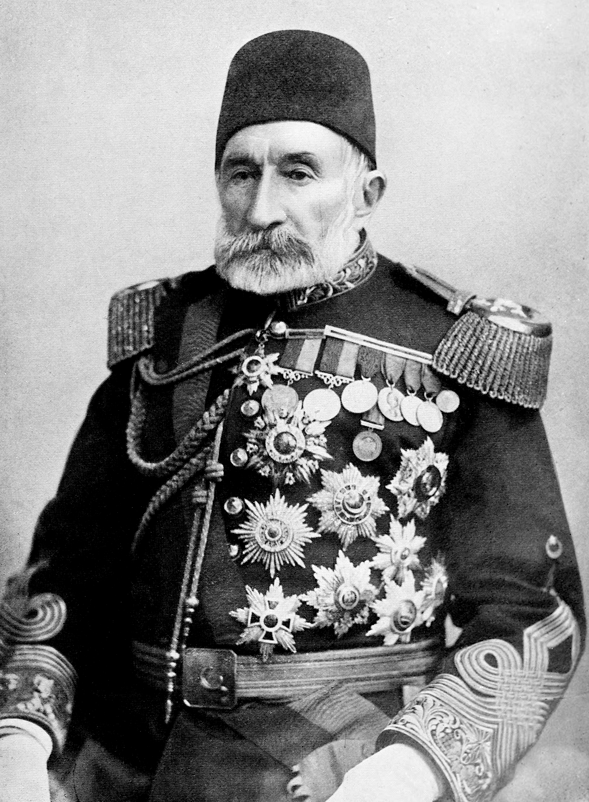 Dervisch Pasha